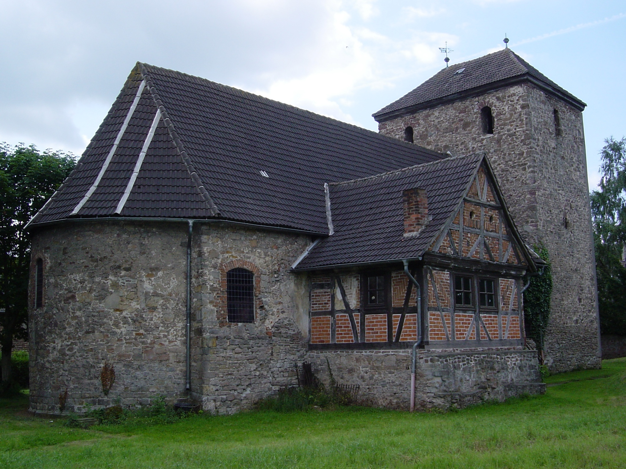 Protestant St. Georg church in Emden (Altenhausen), Germany